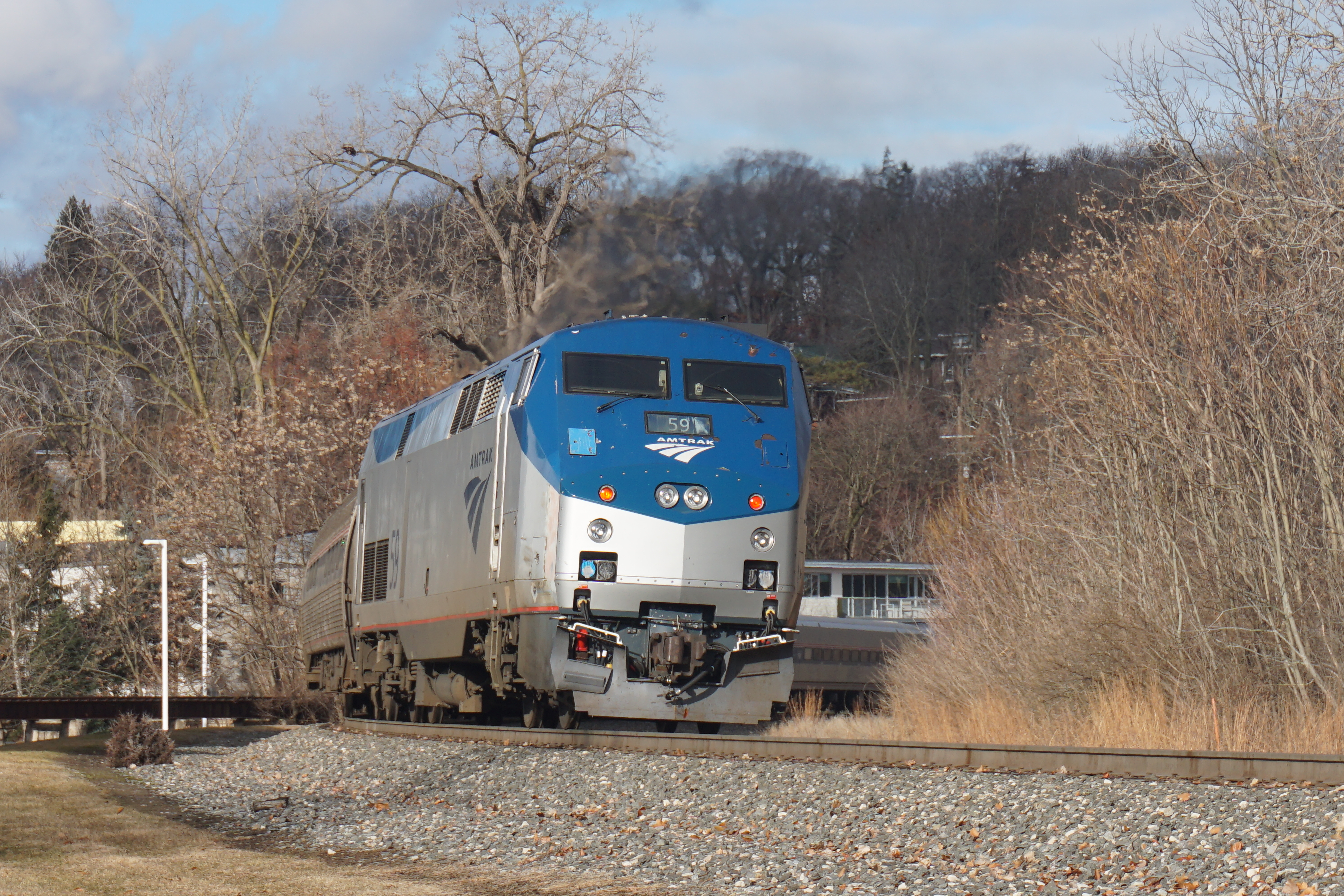 Amtrak's Wolverine, led by GE P42DC #68 and pushed by GE P42DC #59, at Ann Arbor Station in Ann Arbor, Michigan (United States).